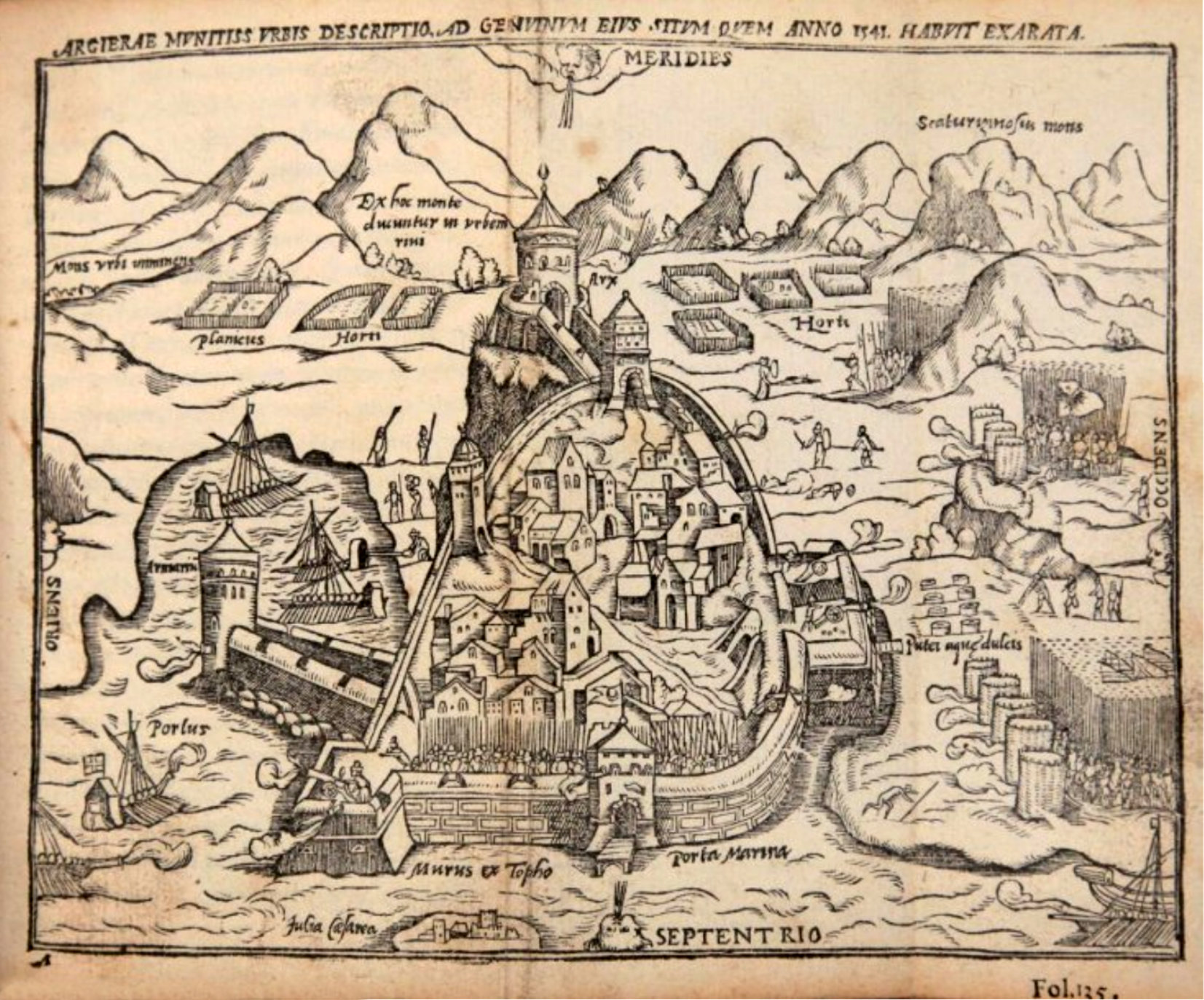 Siege_of_Algiers_1541. Engraving from